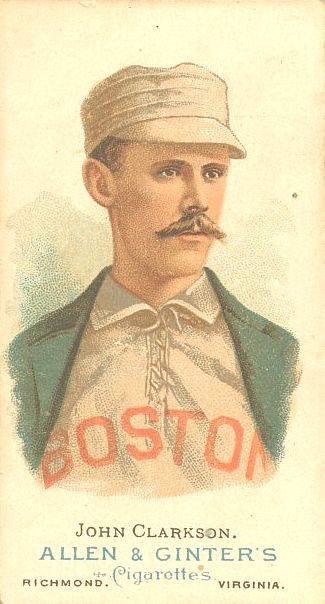 Allen & Ginter World's Champions (N28) baseball card for John Clarkson